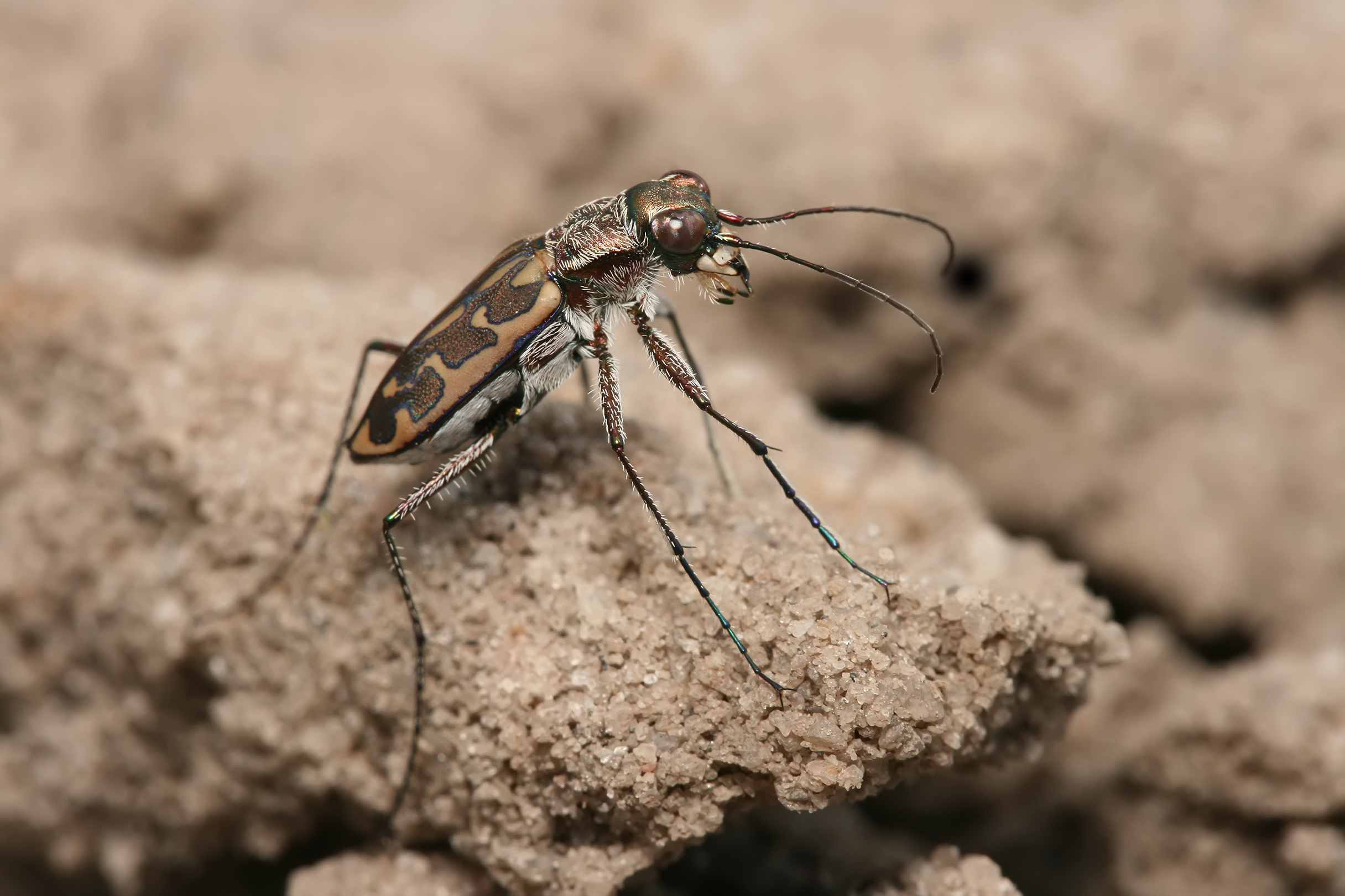 Lophyra sp. Tiger beetle pictured in Kibaha, Tanzania.